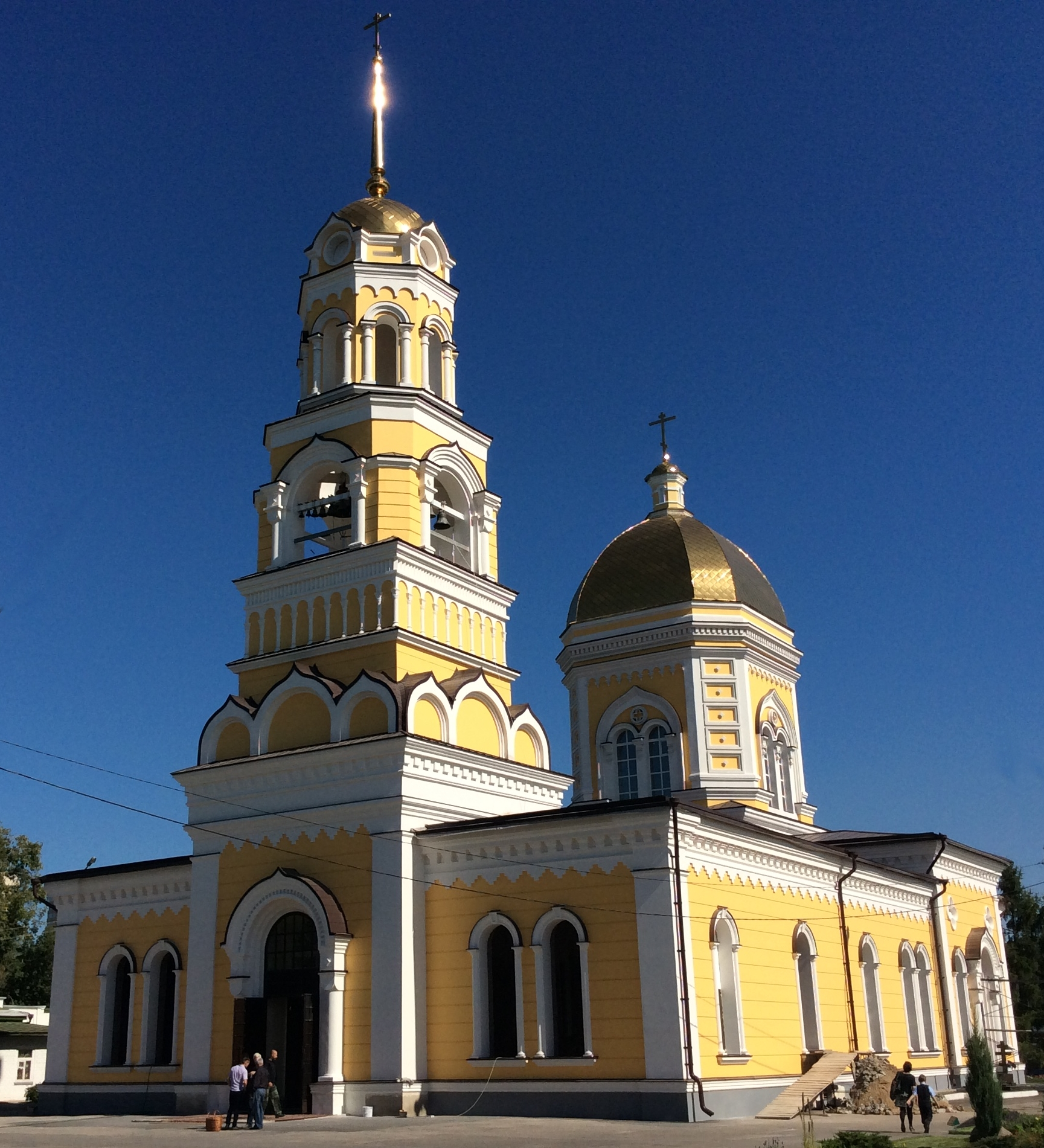 Holy Trinity Cathedral (Engels) after reconstruction